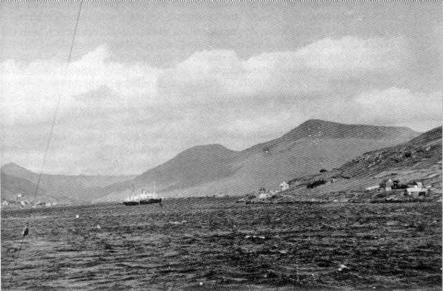 Swedish passenger ship "Patricia" at anchor in Skaalefjord, Faeroe Islands, the 19th June 1940.